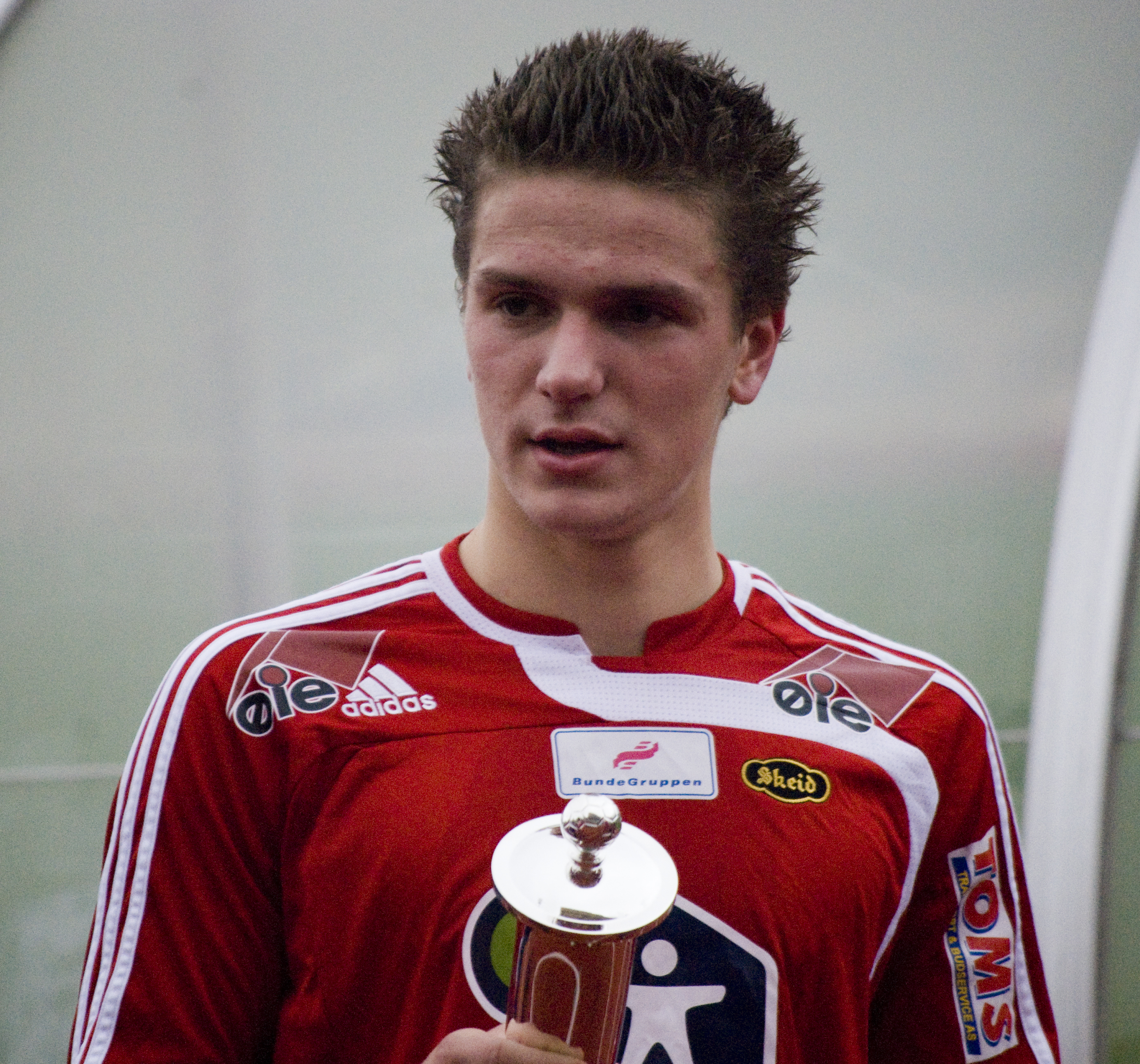 Flamur Kastrati after winning the Norwegian 2. division with Skeid in 2008.